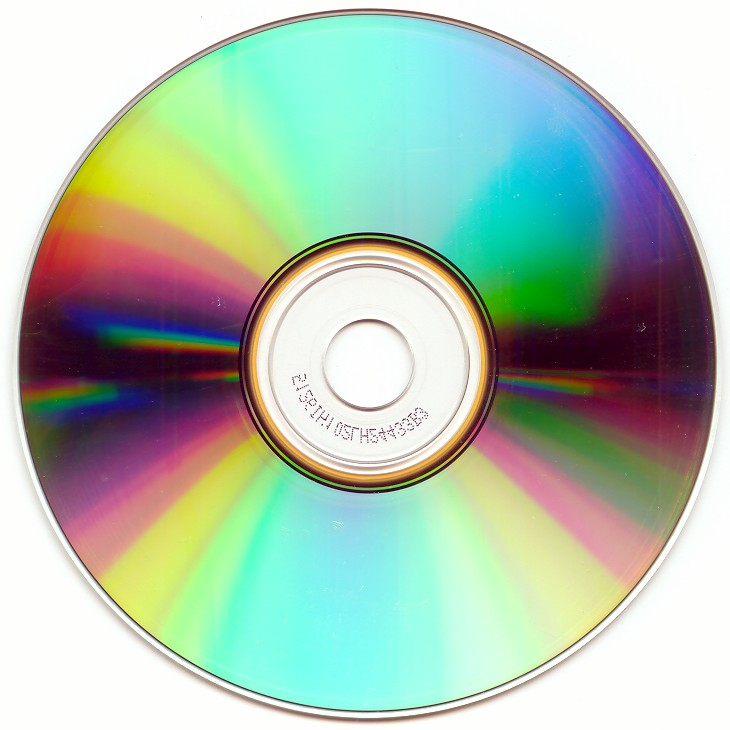 Flat view of a CD-R, with interference colours. Sorry about the dust fibres. Saved as JPG with IrfanView at 90% quality. Scanned by me with an HP ScanJet 4400c, and run through ACDSee's "auto-level" filter.